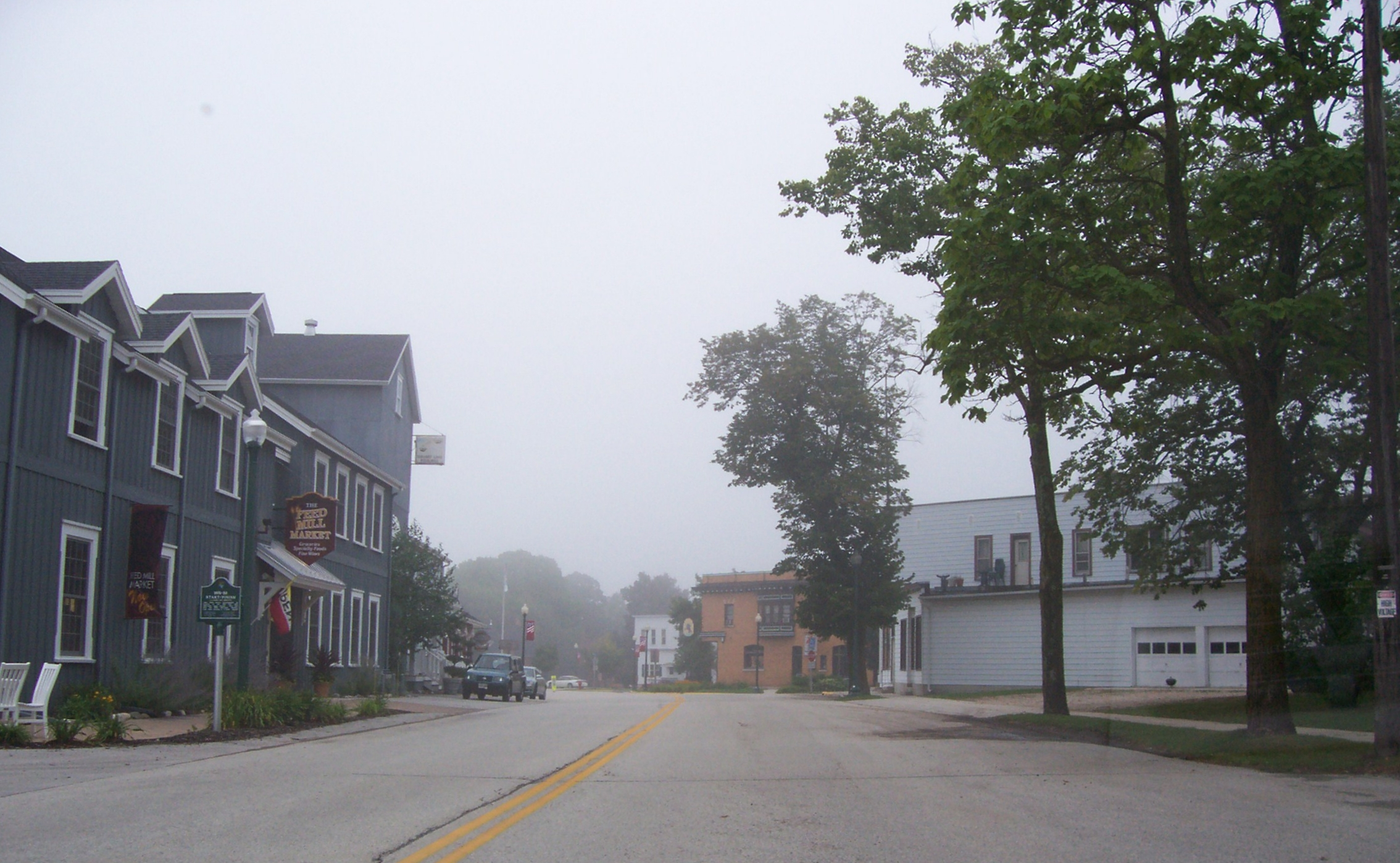 Looking south at the historical sign marking the start/finish line for the 1951 and 1952 races in Elkhart Lake, Wisconsin, USA. The site is located on Kettle Moraine Scenic Drive.